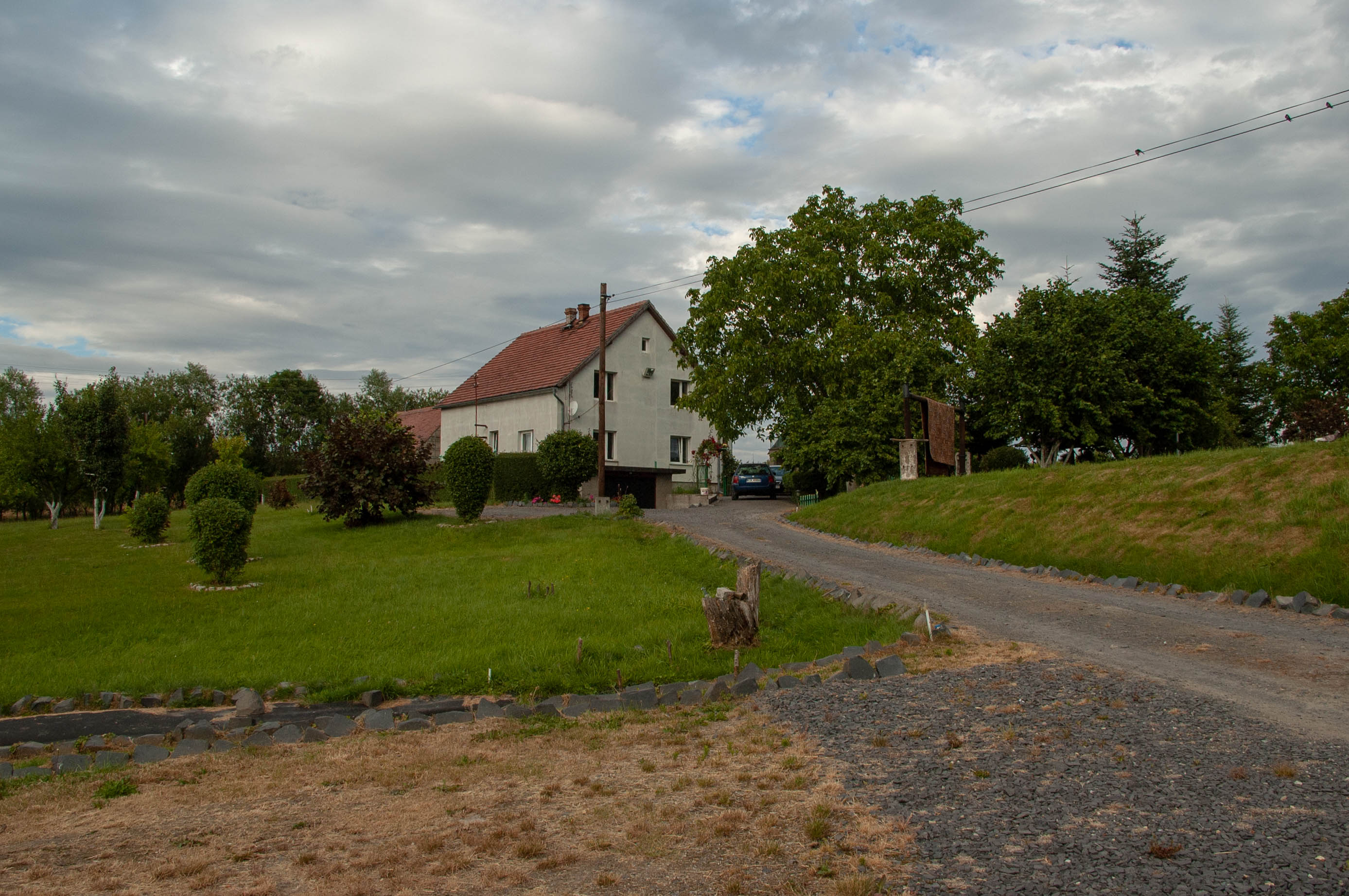 This photograph was created as a part of Wikiexpedition Lower Silesia, a project supported by Wikimedia Poland grant.